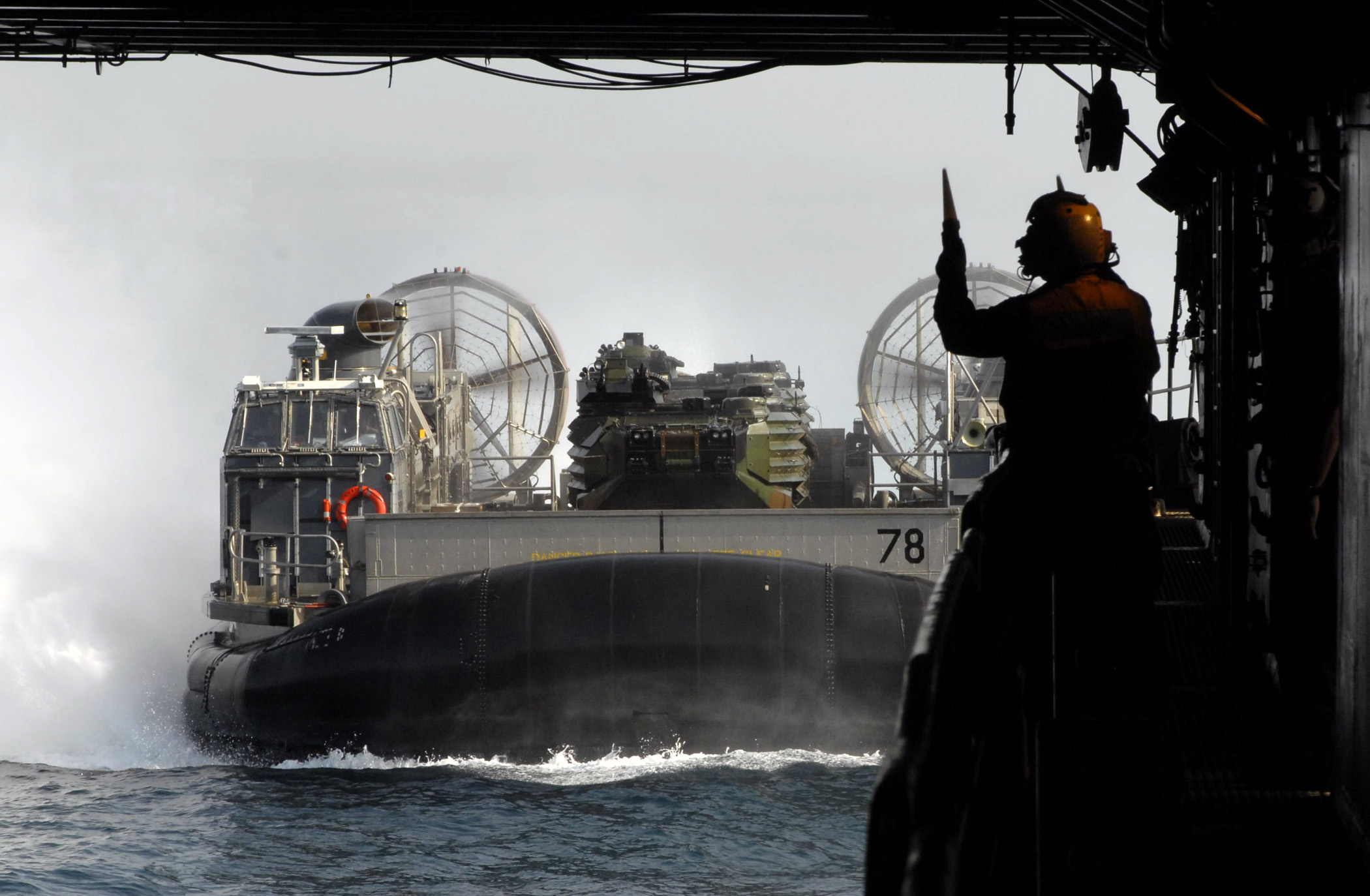 ATLANTIC OCEAN (June 23, 2011) Boatswain's Mate 3rd Class Ronnie Guerra, from Union City, N.J., signals to operators aboard a landing craft air cushion (LCAC) assigned to Assault Craft Unit (ACU) 2 as it enters the well deck of the amphibious dock landing ship USS Whidbey Island (LSD 41). Whidbey Island is deployed as part of the Bataan Amphibious Ready Group, participating in the Spanish Amphibious Landing Exercise (PHIBLEX) off the coast of Spain. (U.S. Navy photo by Mass Communication Specialist 1st Class Rachael L. Leslie/Released)